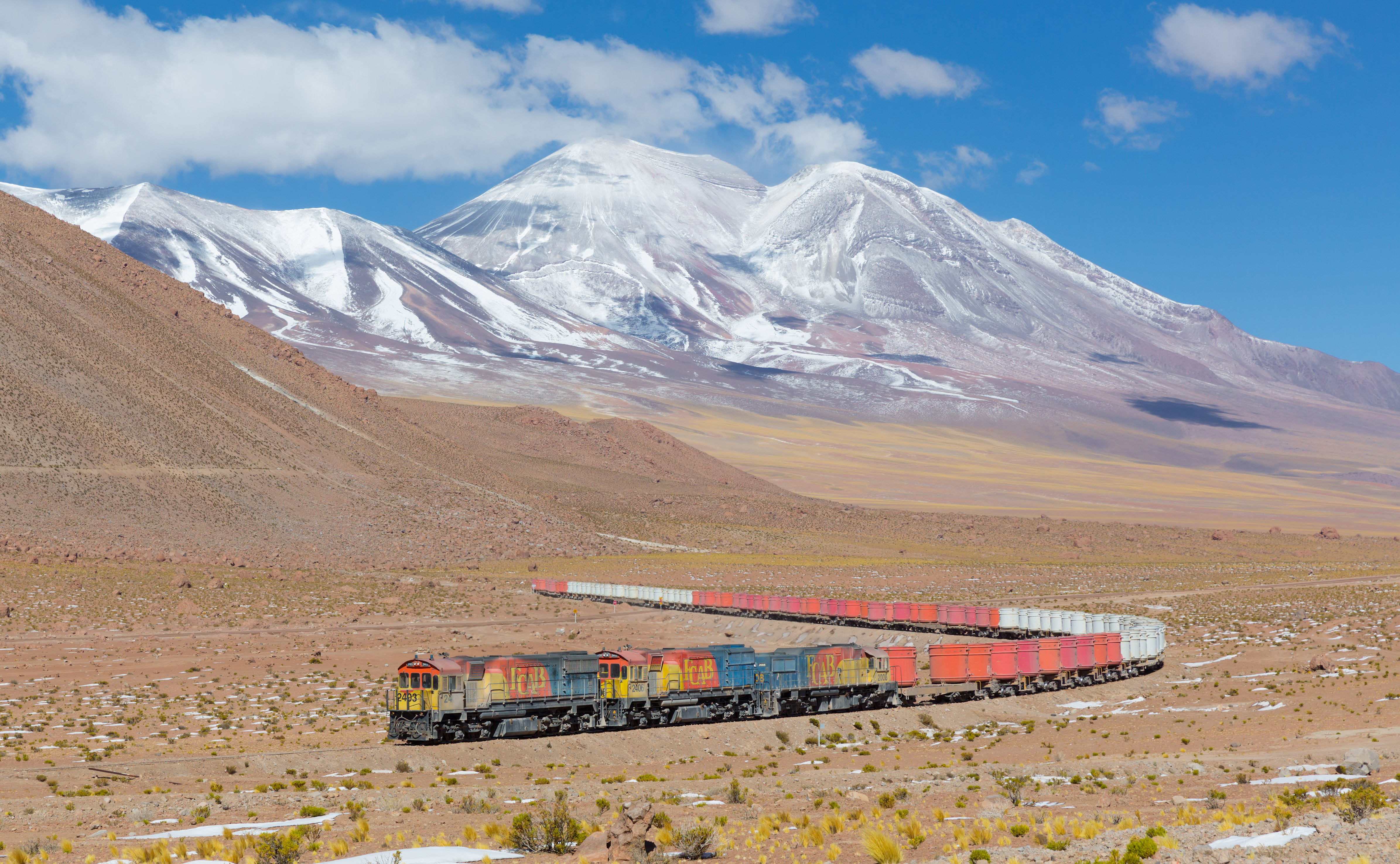 FCAB's EMD GT22CU-3 2403 and 2406 (rebuilt GR12s) and EMD/Clyde GL26C-2 2008 haul an empty "bucket train" (used to haul ore concentrate) from Antofagasta to Bolivia, pictured between San Pedro (not San Pedro de Atacama) and Ascotan, Chile. In the background you can see the volcano "San Pedro".